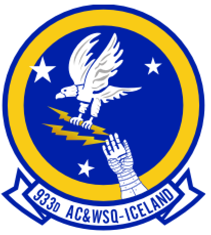 933d Aircraft Control and Warning Squadron emblem. Approved 12 October 1959.